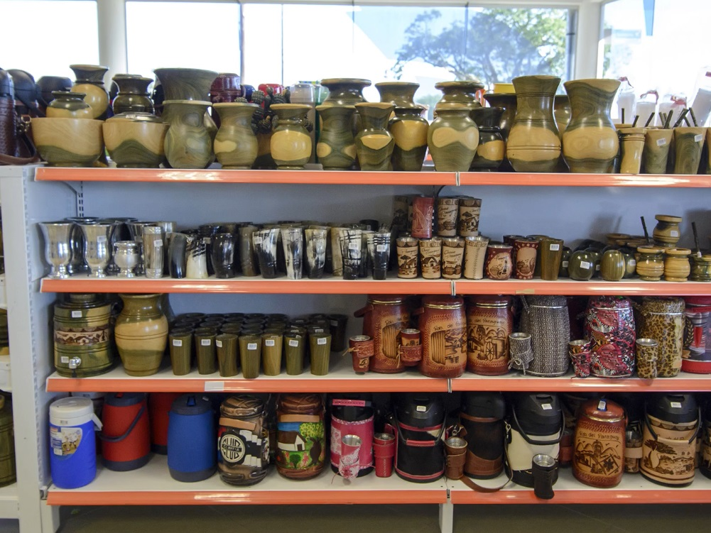 A tereré kit in a store of Filadelfia, Paraguay